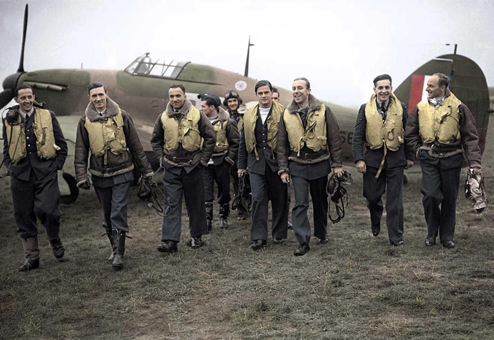 303 squadron pilots. From the left side: P/O Ferić, F/Lt Kent, F/O Grzeszczak, P/O Radomski, P/O Zumbach, P/O Łukuciewski, F/O Henneberg, Sgt. Rogowski, Sgt. Szaposznikow (in 1940). Photo was colorized. Here is genuine color photo showing Polish pilots from WW2